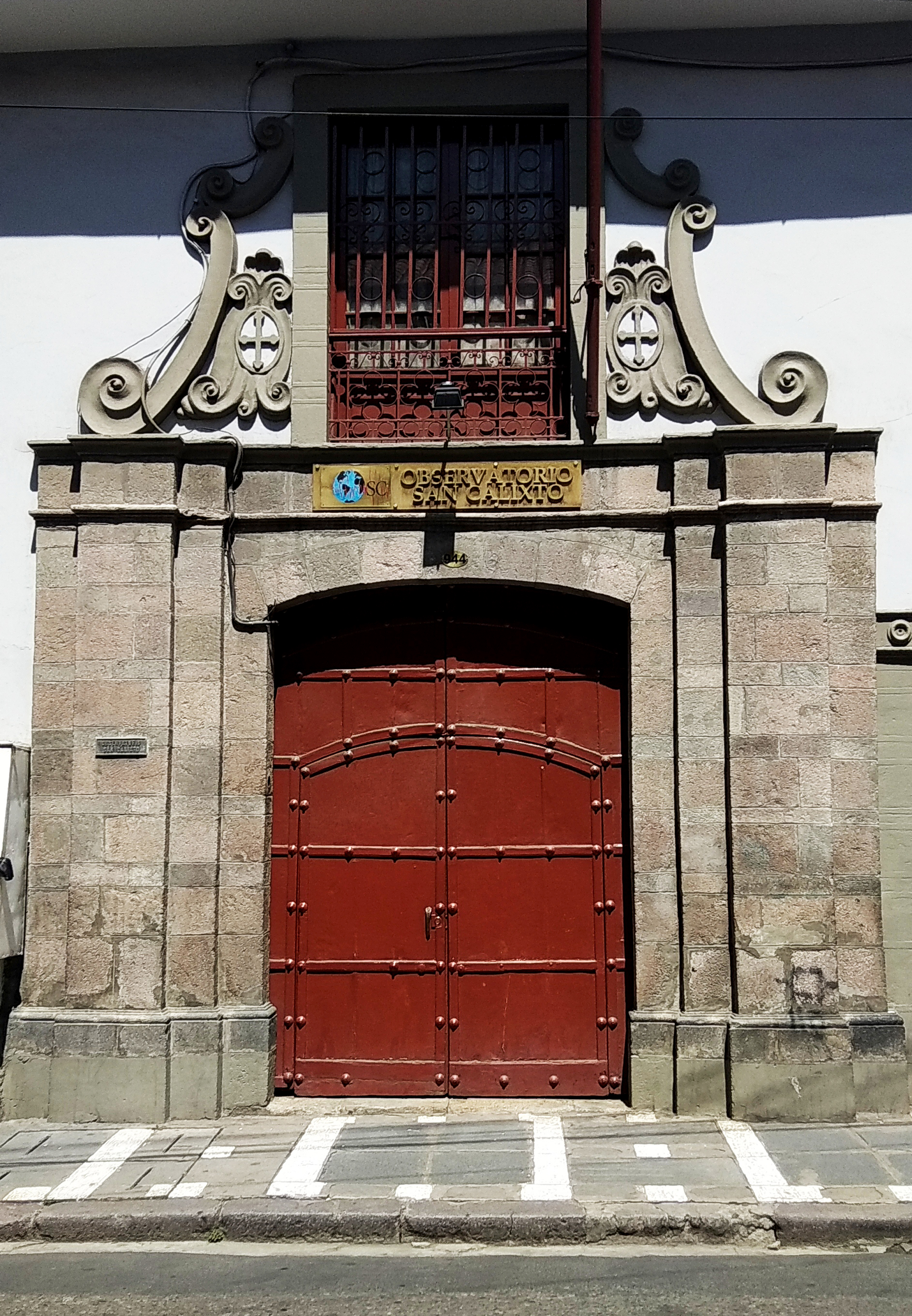 Seismological observatory San Calixto in La Paz, Bolivia